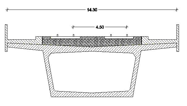 Profile of the superstructure Kassemühle valleybridge